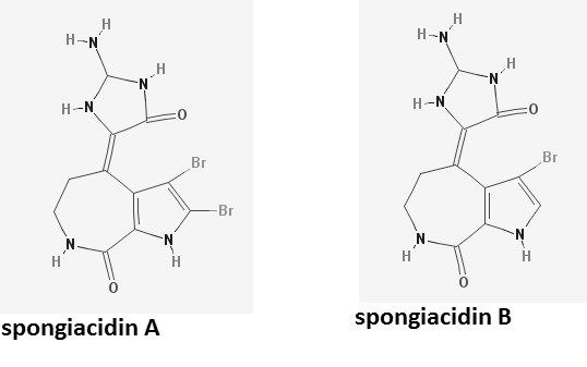 Spongiacidin A&B